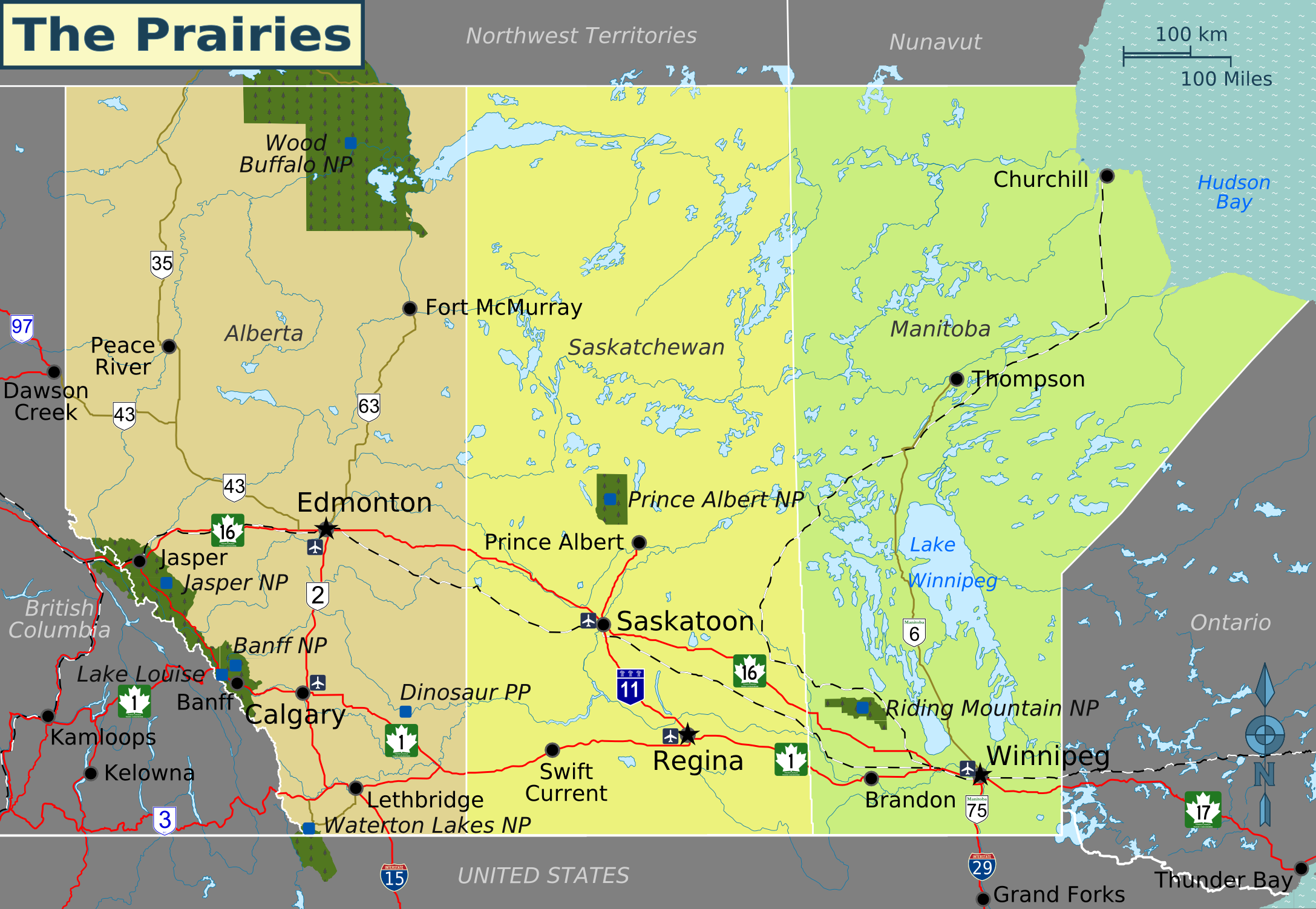 Map of the Prairies (Wikivoyage regional scheme), English version